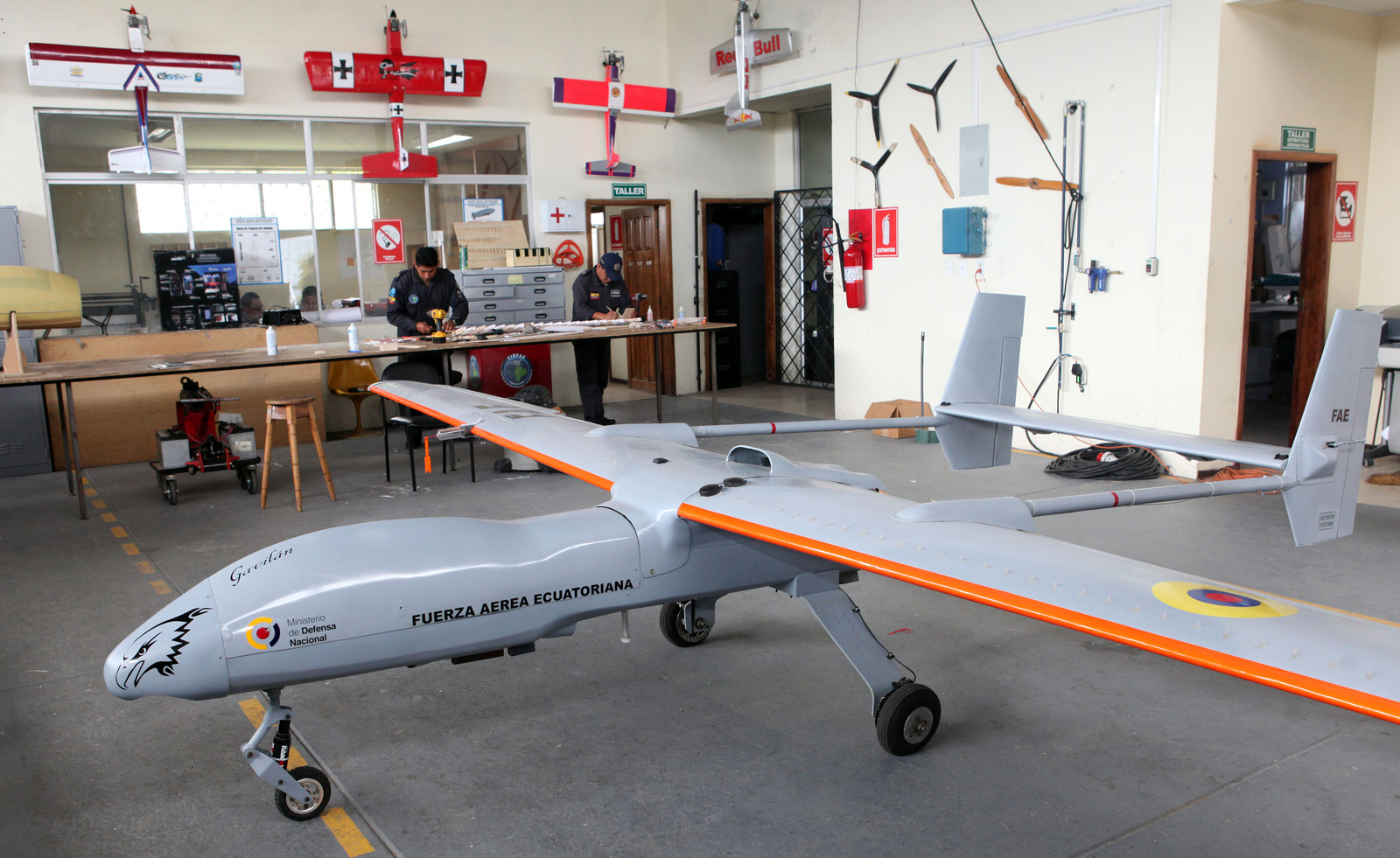 UAV Hawk, Made in Ecuador